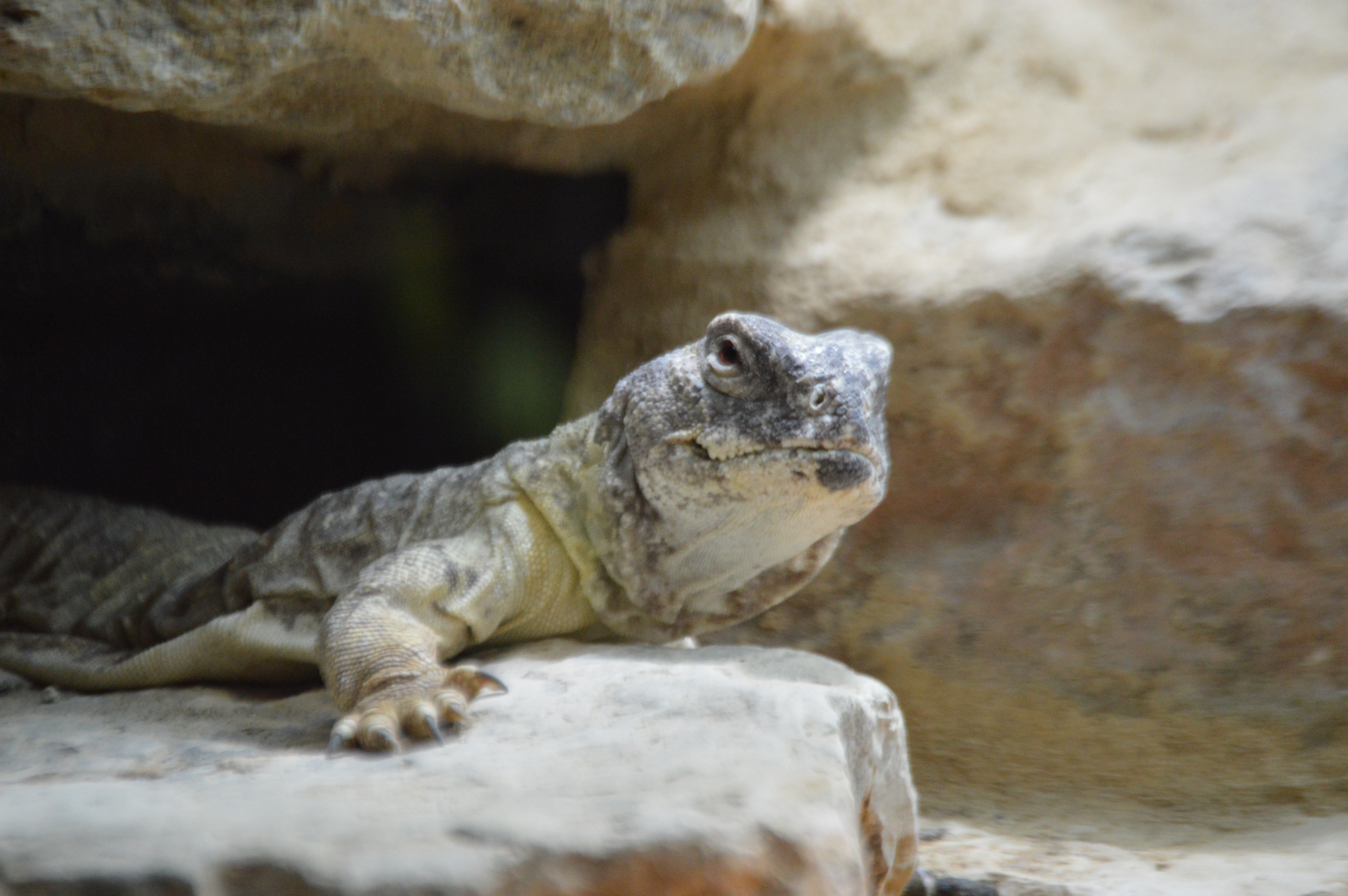 Uromastyx aegyptiaca leptieni